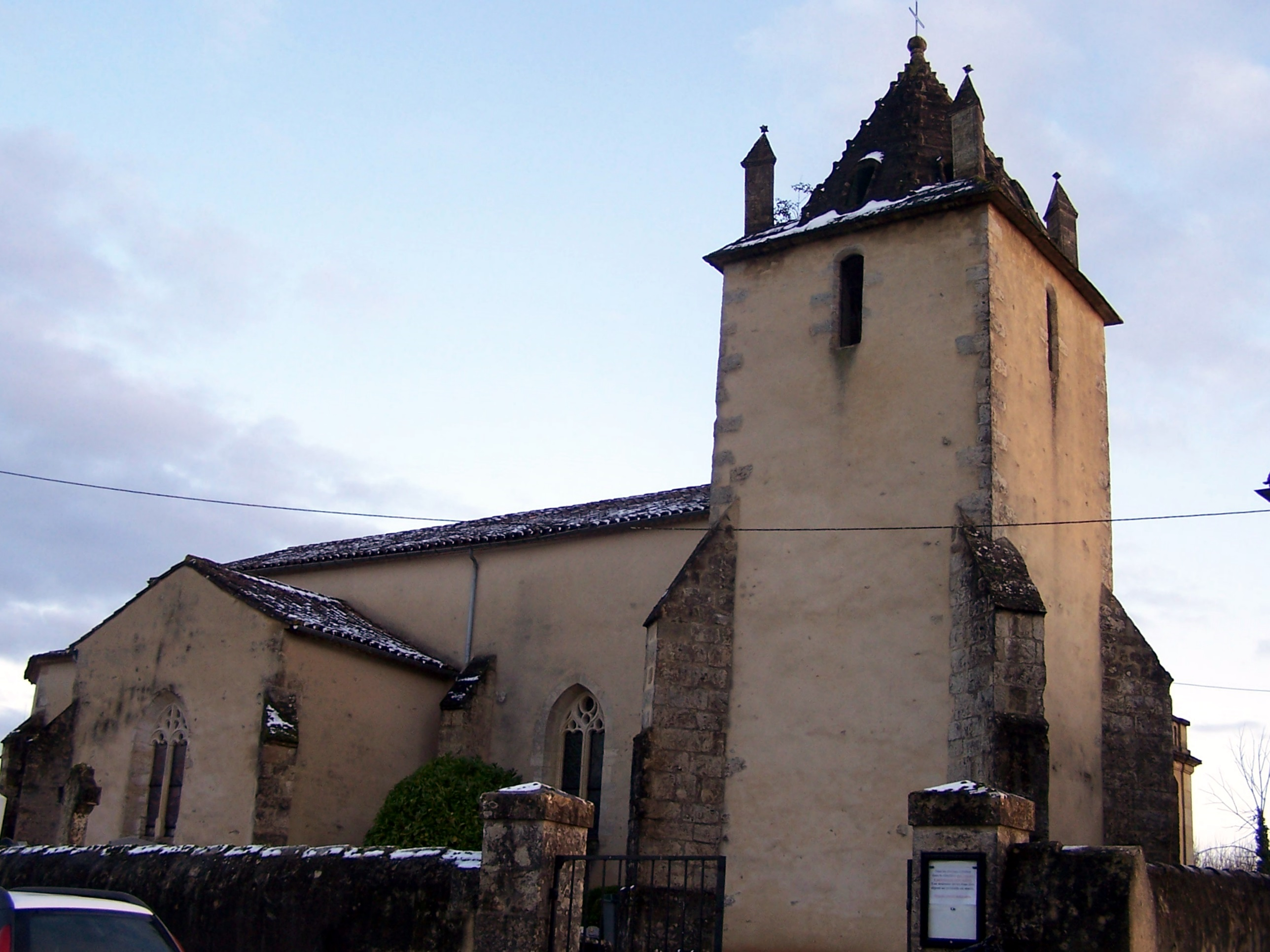 Church of Casseuil (Gironde, France)